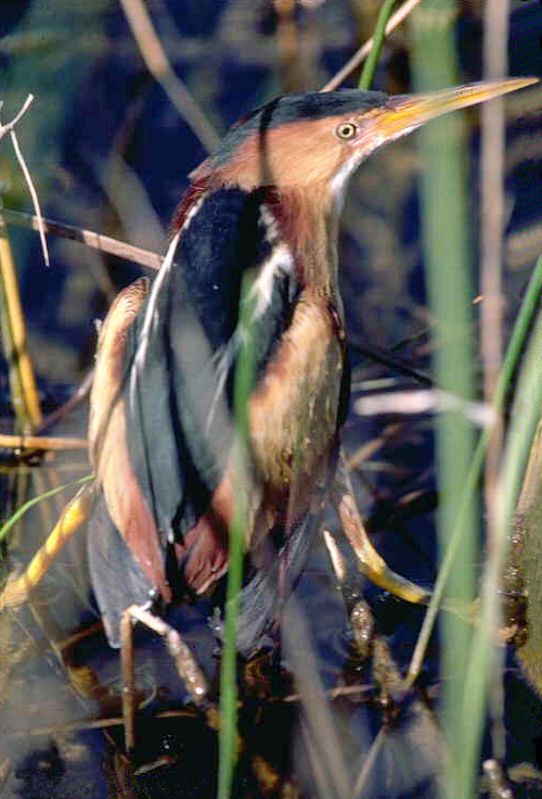 Least Bittern, a North American heron.